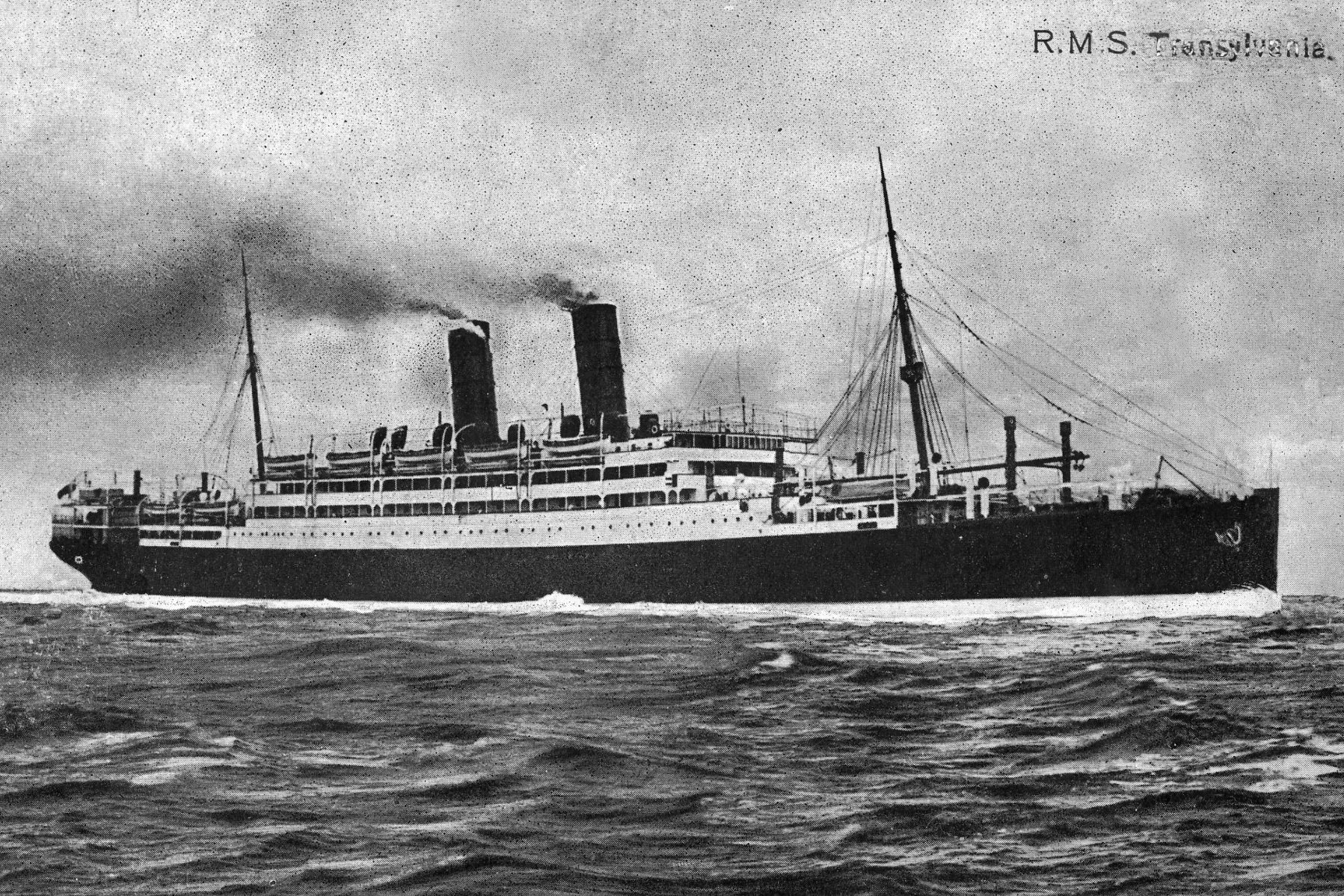 Scan of a postcard from the first world war featuring the RMS Transylvania. The postcard was carried by a British soldier who travelled on the vessel when she was serving as a troop ship.